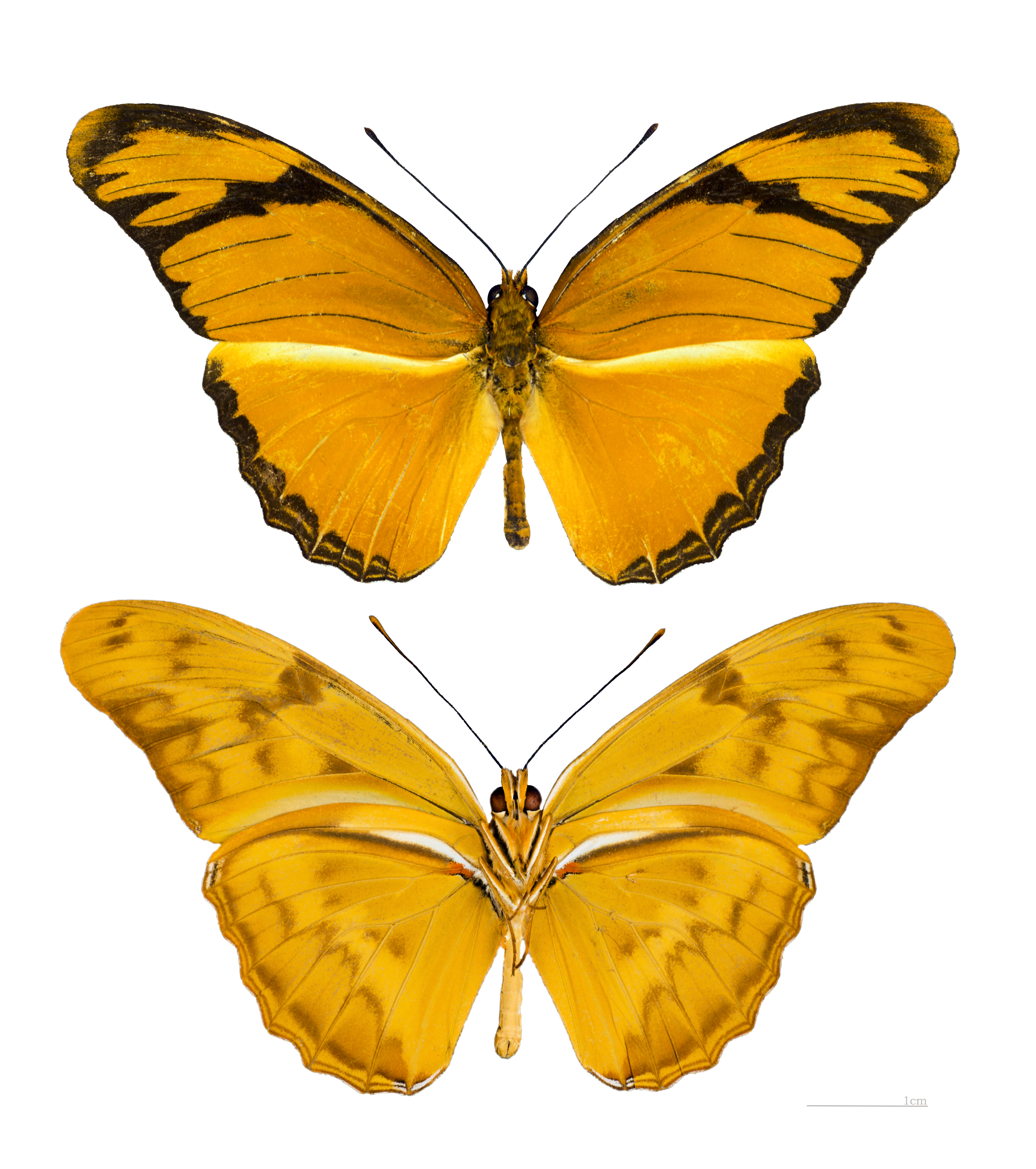 Dryas iulia dominicana, Two views of same specimen.